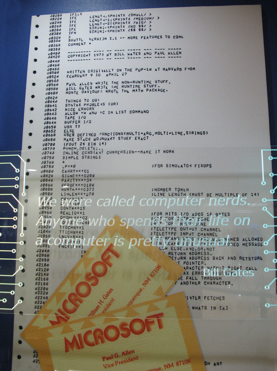 Listing of Altair BASIC on display at the New Mexico Museum of Natural History and Science.